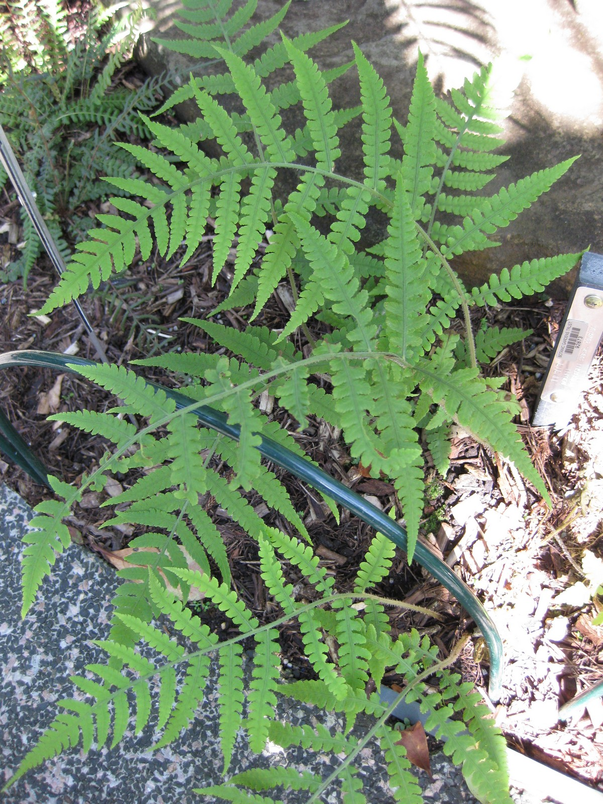 Photographed at the Royal Botanic Gardens Sydney (Australia) in December